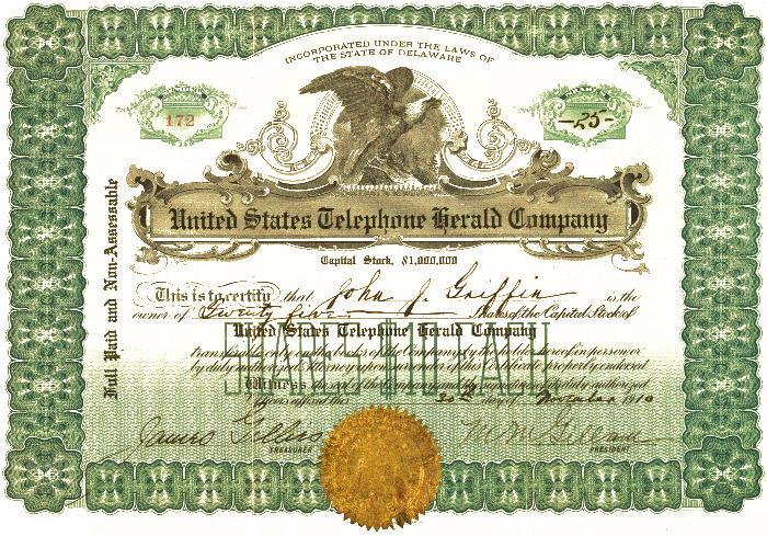 Scan of a United States Telephone Herald Company stock certificate, for twenty-five $10 shares, issued on November 30, 1910 to John J. Griffin. Signed by James Gillies (treasurer) and Manley M. Gillam (president).